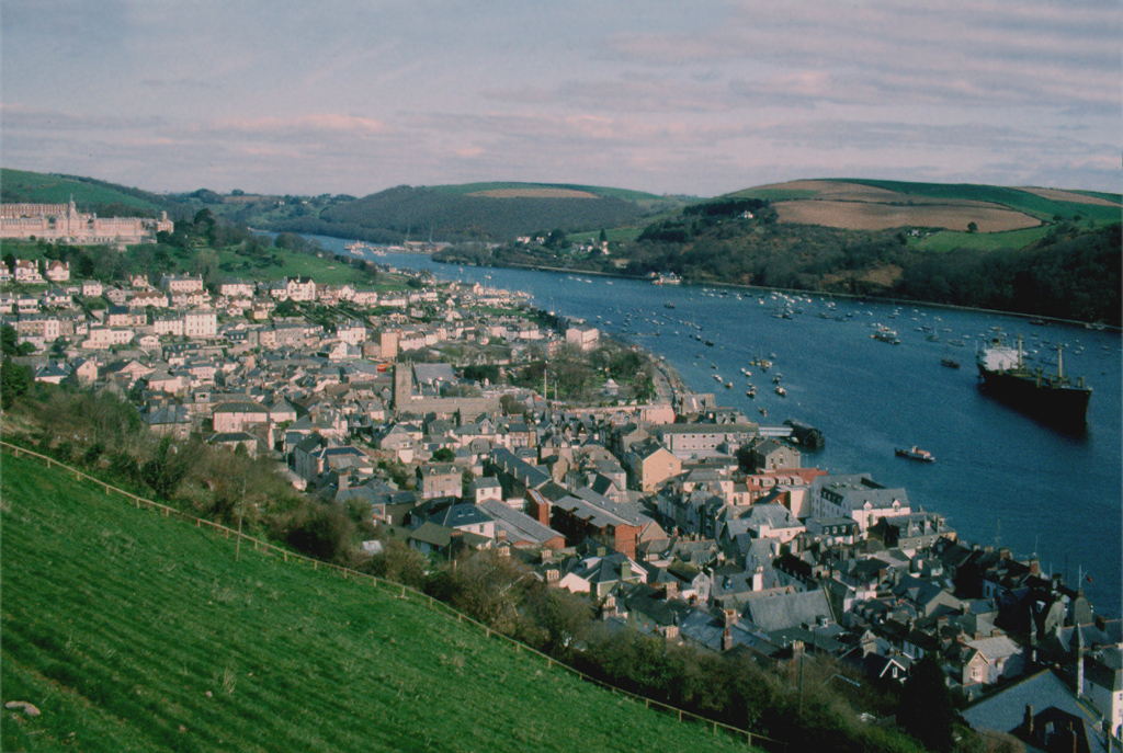 Dartmouth, town in Devon in the south-west of England, situated on the estuary of the Dart River